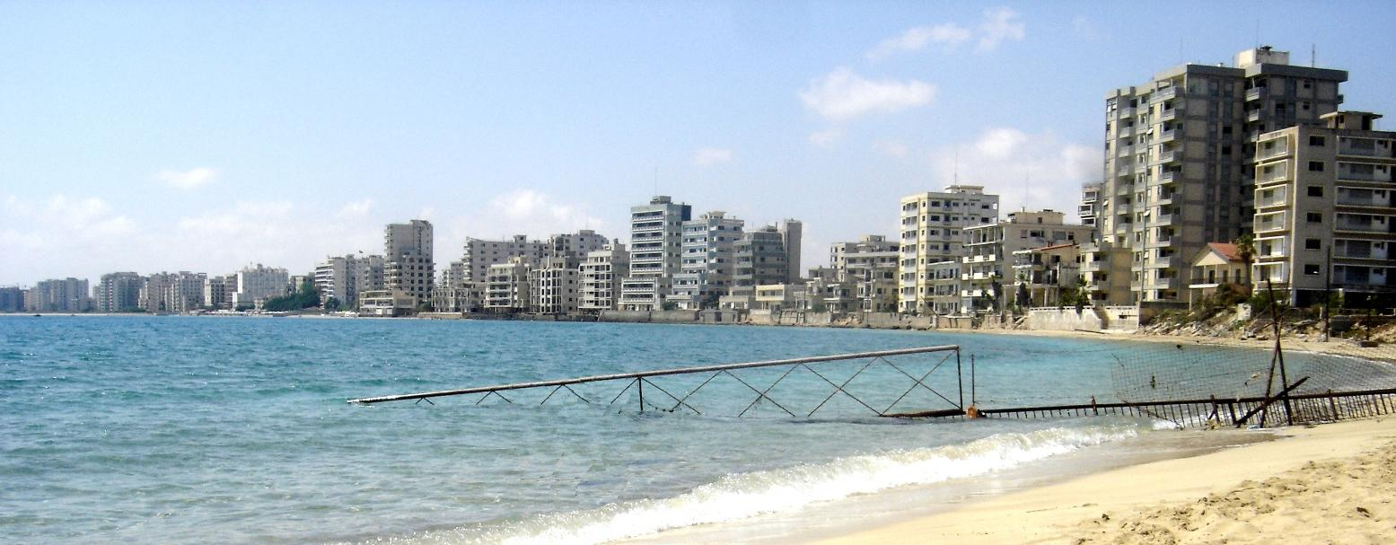 Picture of Varosha (Famagusta) taken by me in June 2006